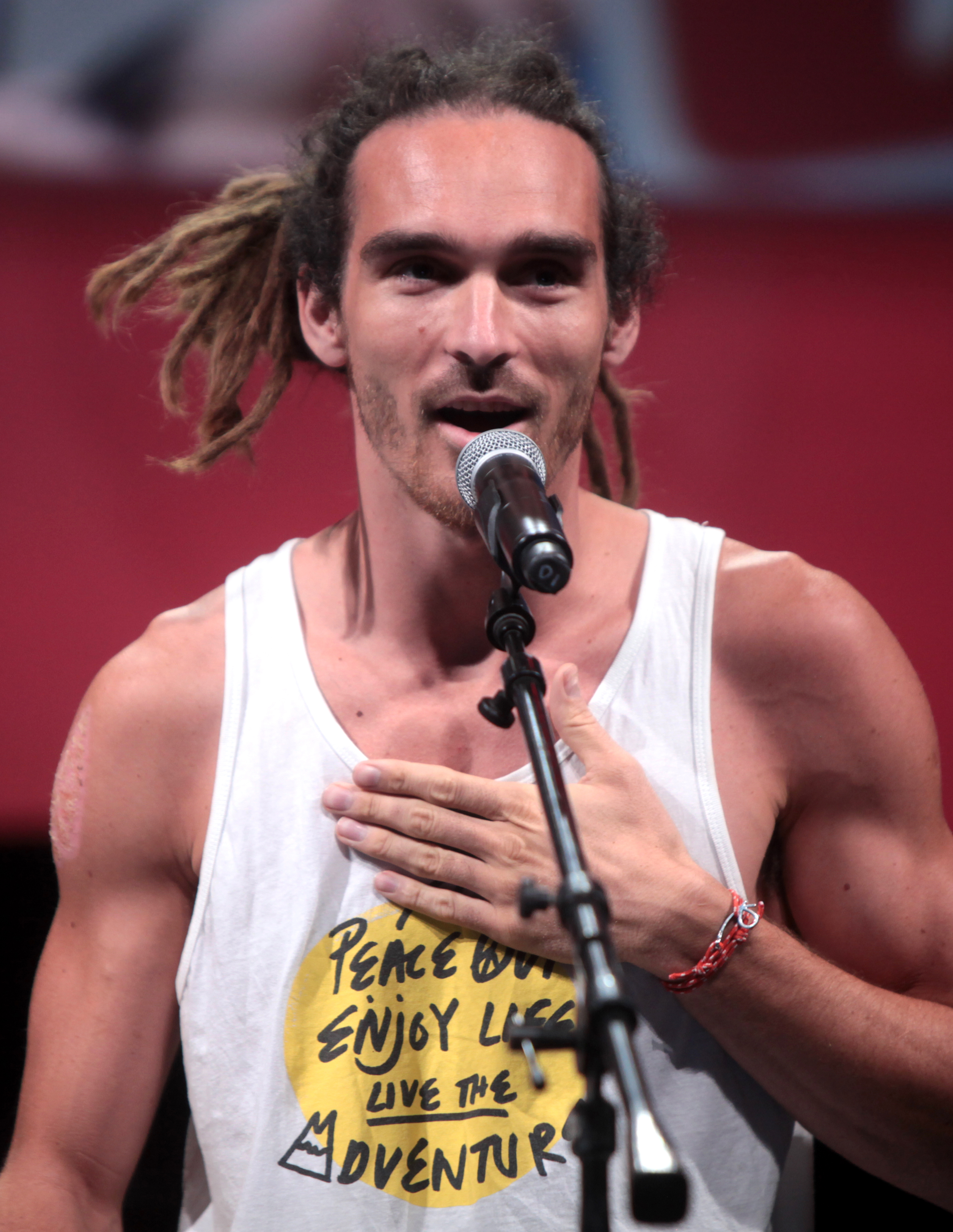 Louis Cole speaking at the 2014 VidCon on June 28, 2014.